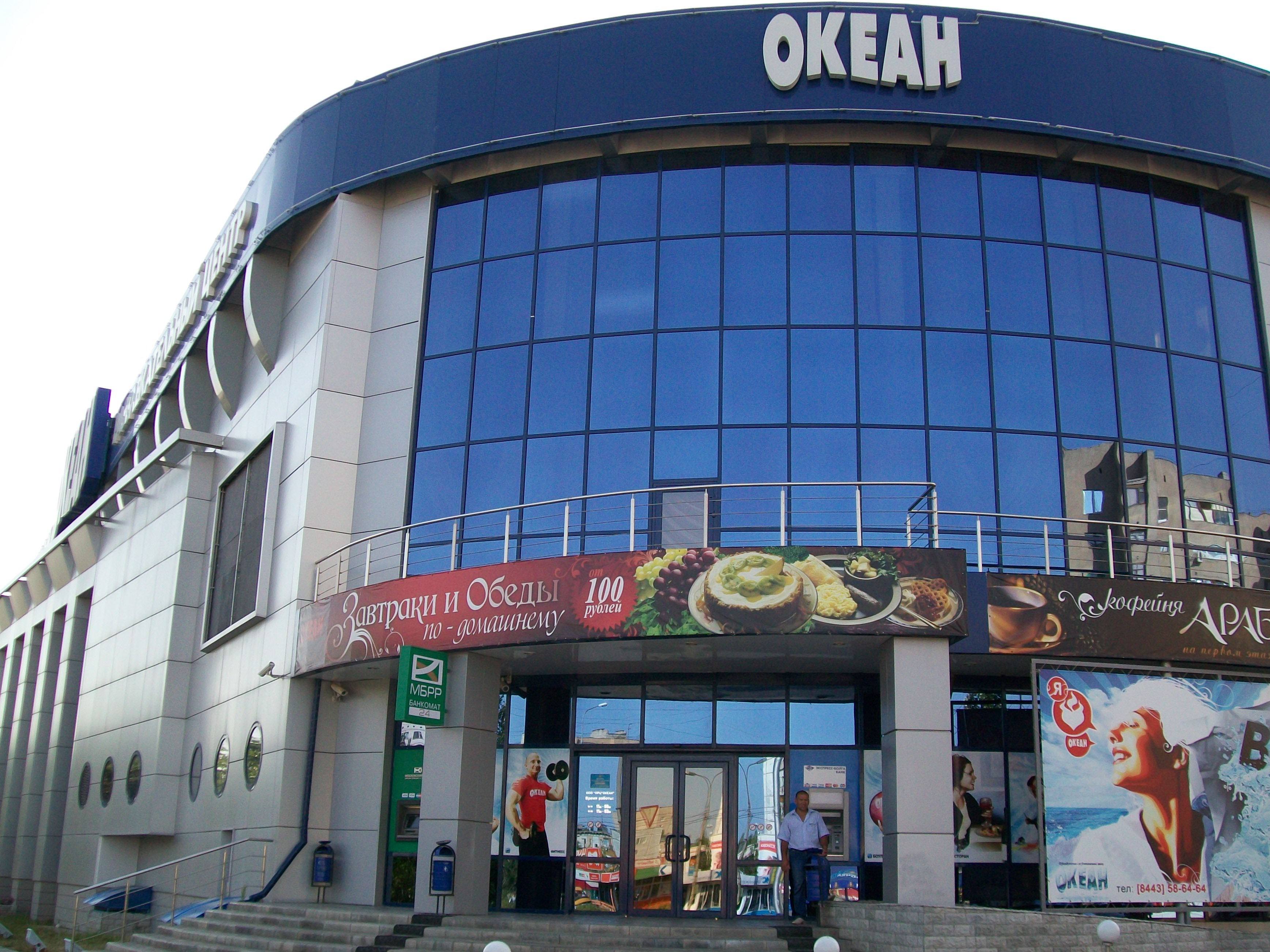 Sport-entertainment centre "Okean" (Ocean) in the 23rd microdistrict in Volzhskiy.